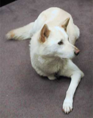 A Korean Jindo Dog